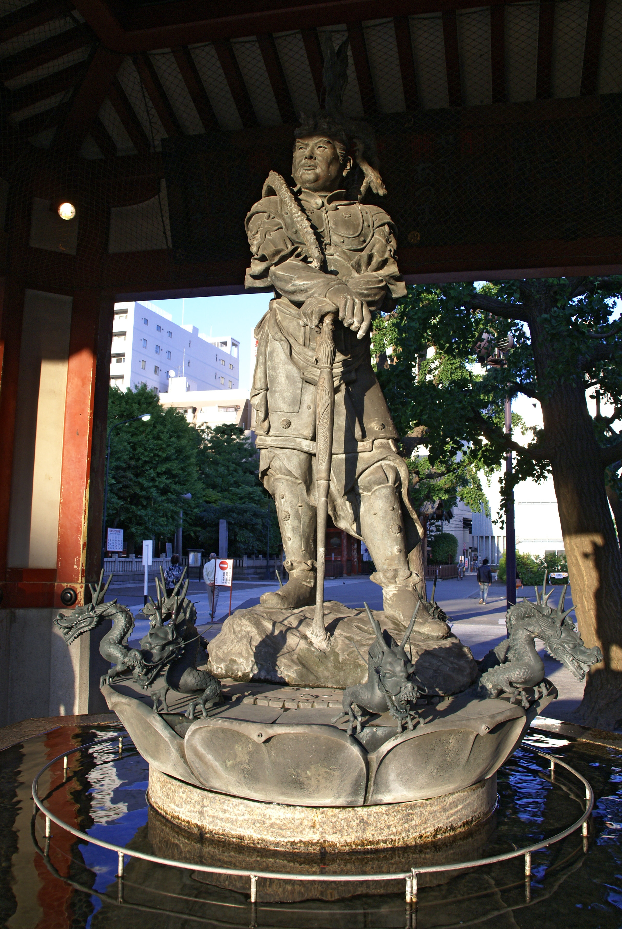 Statue at Omizuya of Sensō-ji in Taito-ku, Tokyo, Japan